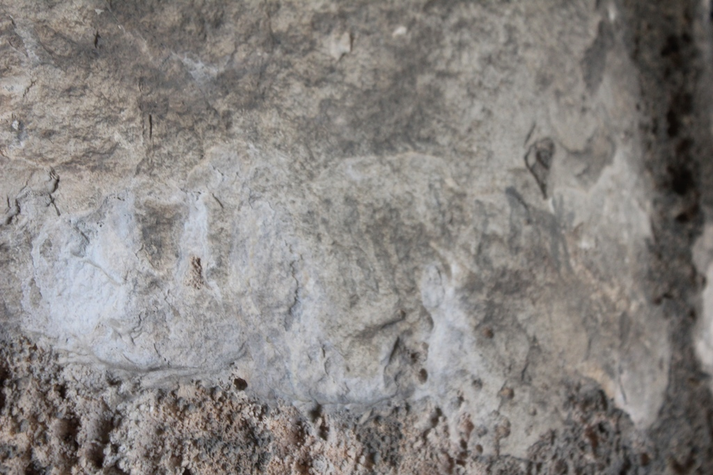 Abrigo de Lecina Superior: Hilera sde barras